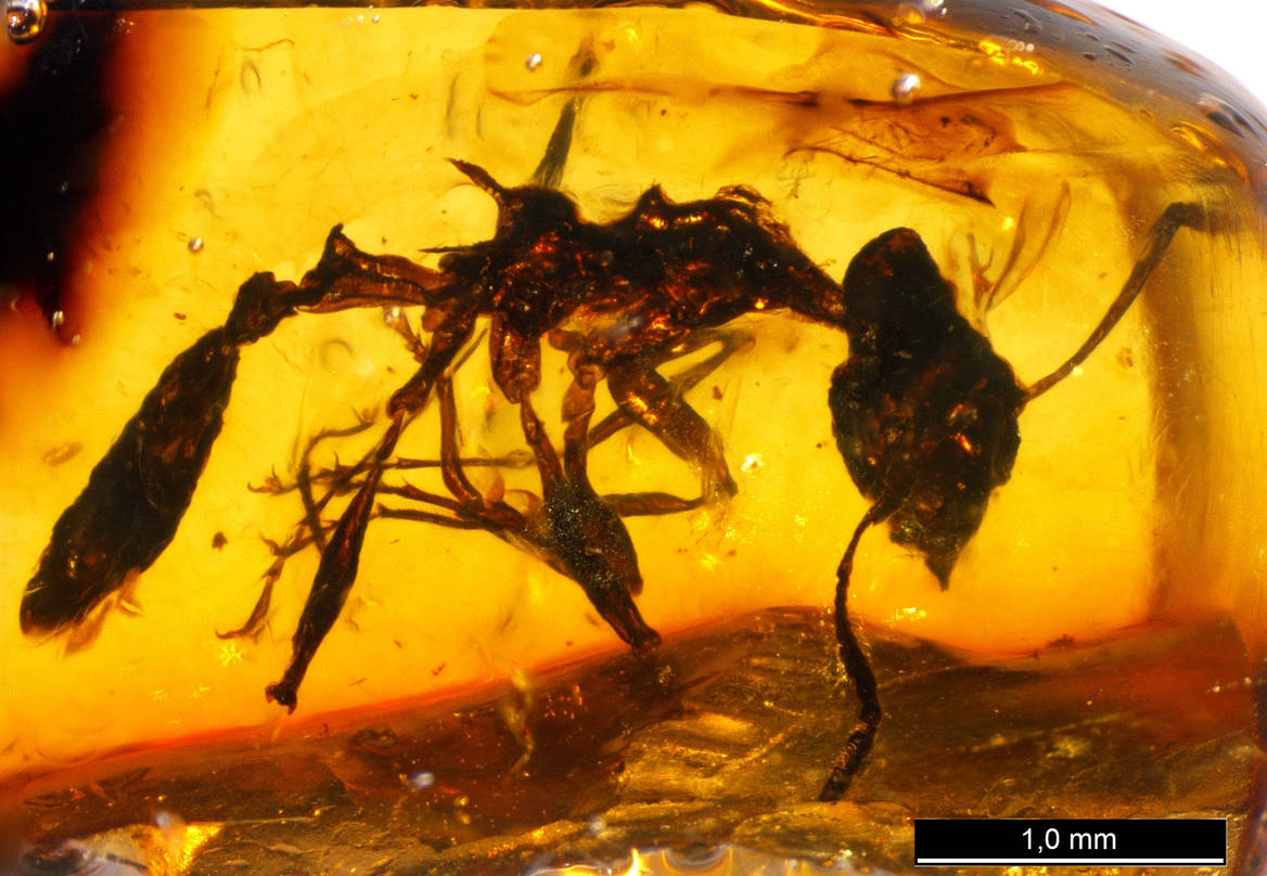 Profile view of the Aphaenogaster dlusskyana holotype workers with rear lighting. Sakhalin Amber, Naibuchi Formation, Middle Eocene, 43-47 Ma; Sakhalin Island, Far East Russia Borissiak Paleontological Institute of the Russian Academy of Sciences, Moscow, Russia (PIN). PIN 3387/172